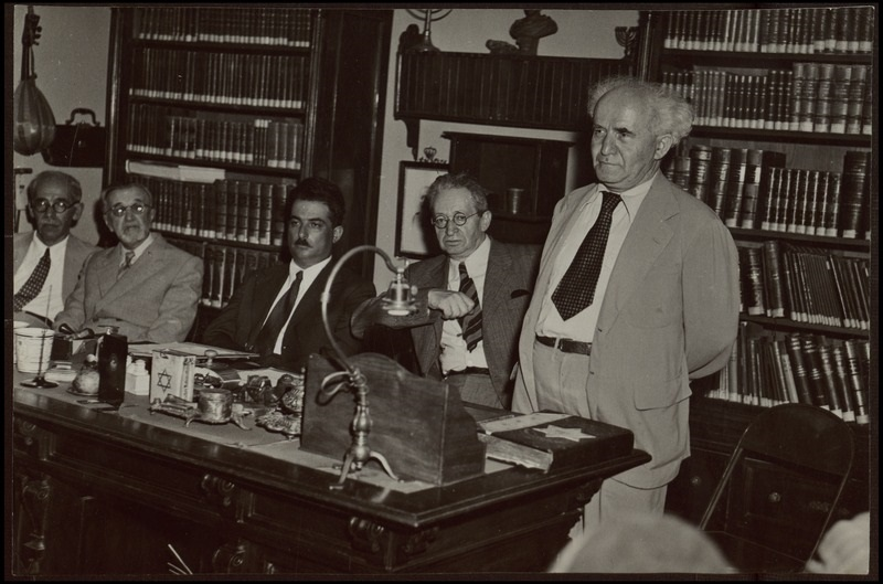 David Ben Gurion speaking in Herzl's Room